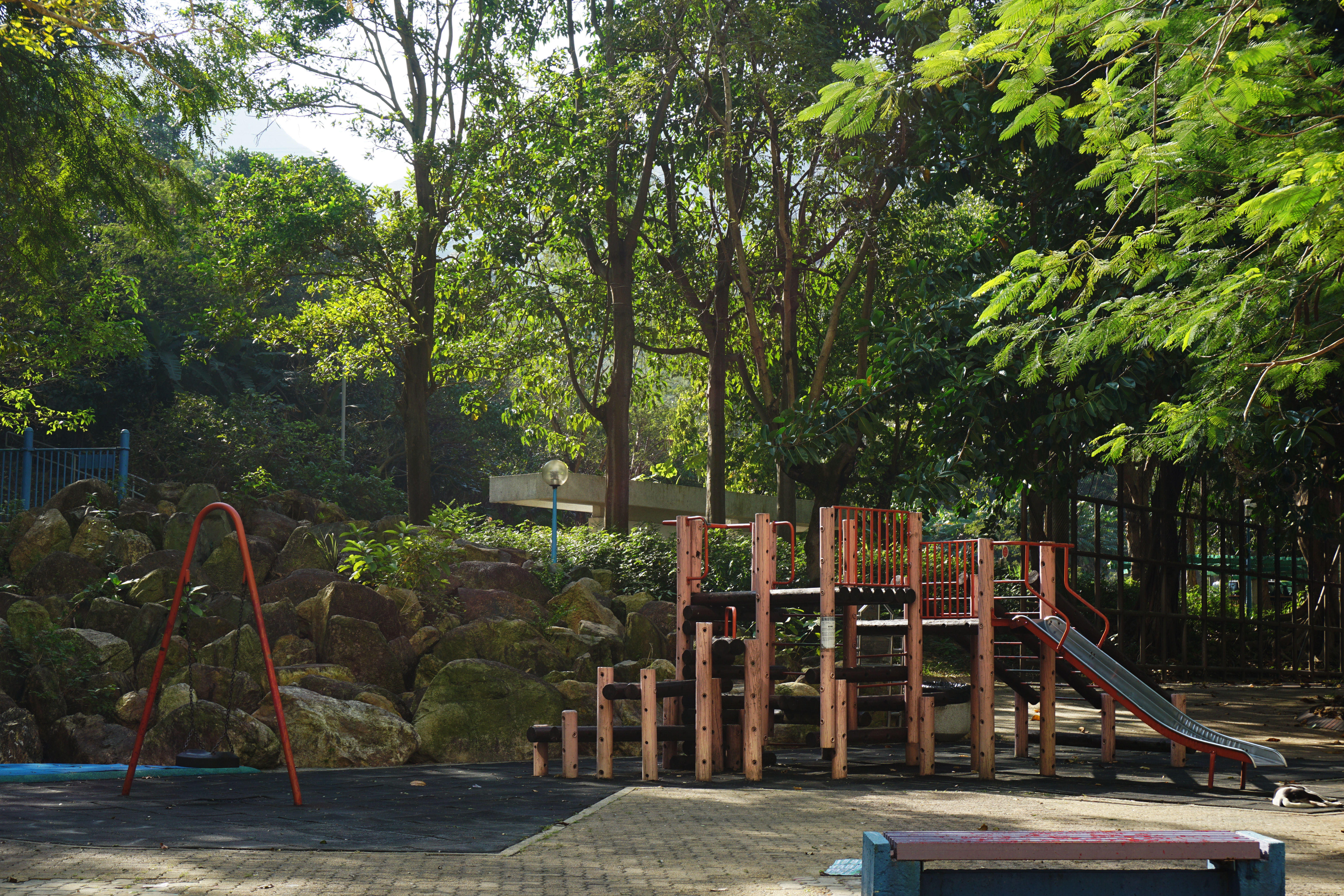 Leung King Estate in Tuen Mun, Hong Kong.